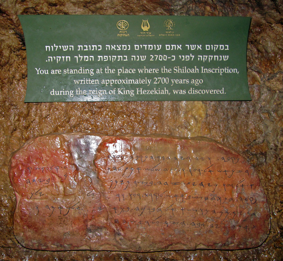 Copy of the Siloam Inscription, placed in Hezekiah's Tunnel (Siloam conduit)